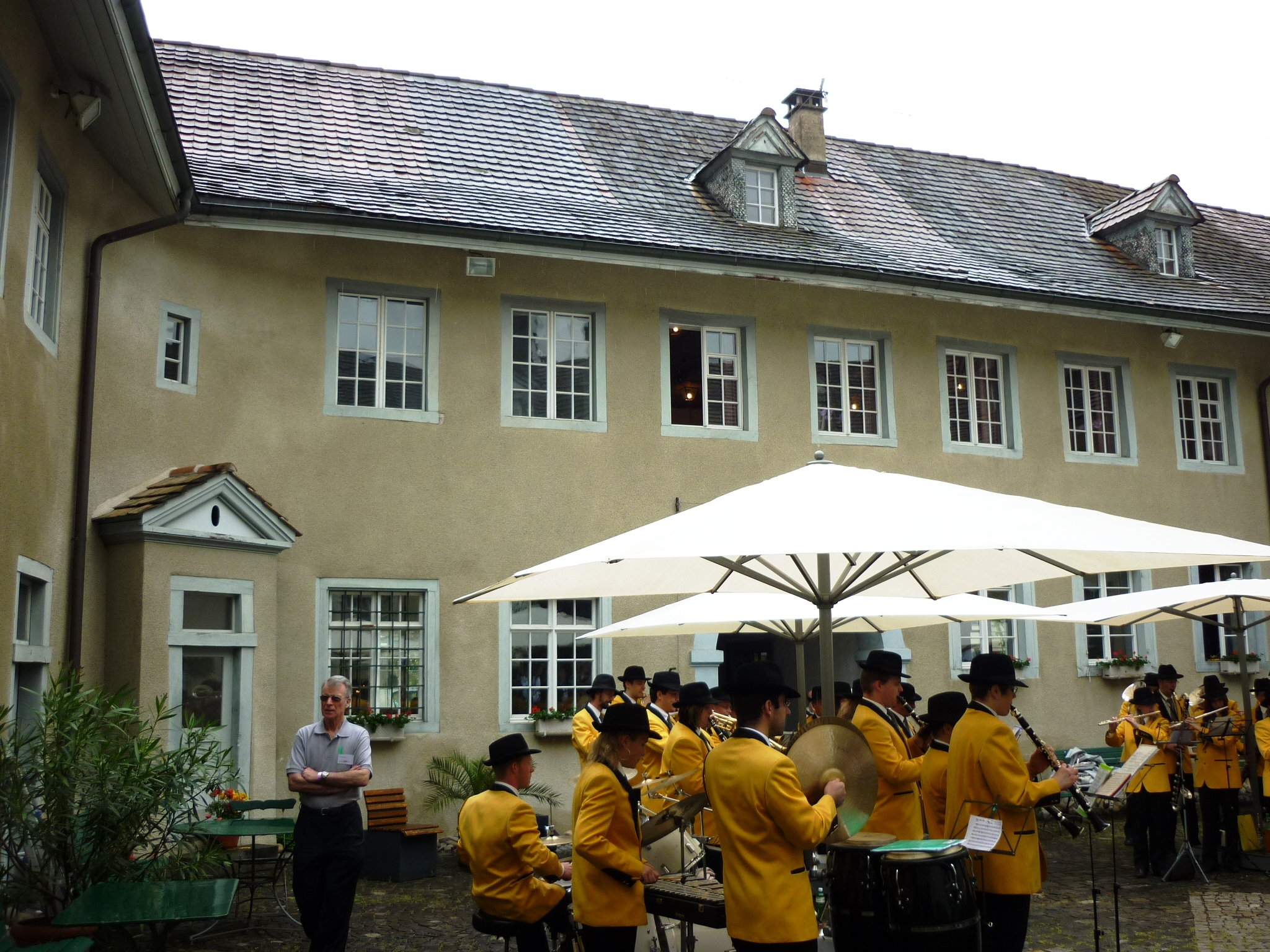 Greuterhof, Islikon TG, Switzerland